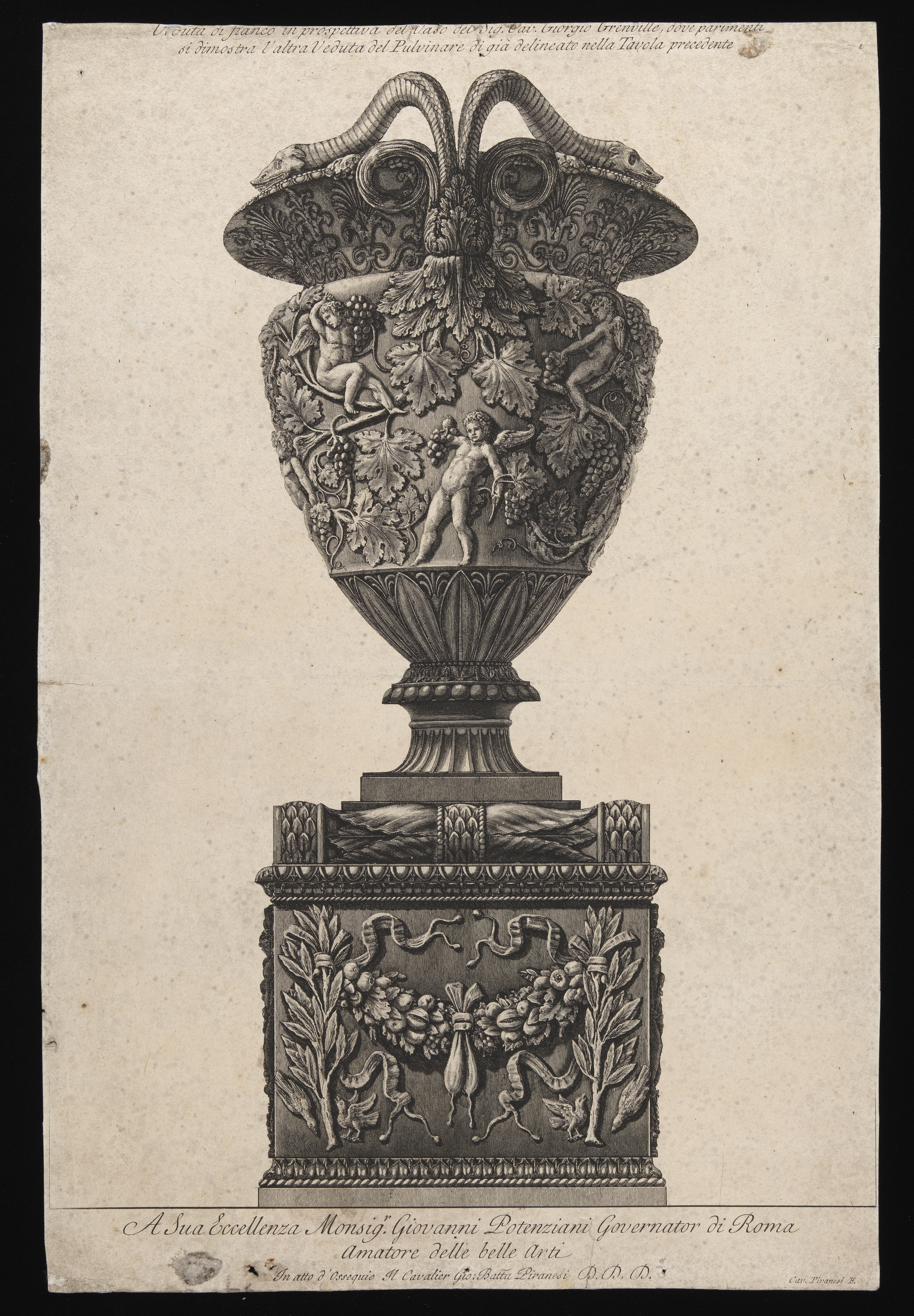 A marble vase placed on a pedestal. Etching by G.B. Piranesi. The vase is equipped with snake handles and carved with cupids plucking grapes among vines. Iconographic Collections Keywords: Giovanni. Potenziani; Stowe House (Buckinghamshire, England); Giovanni Battista Piranesi; George Nugent Temple Grenville Buckingham